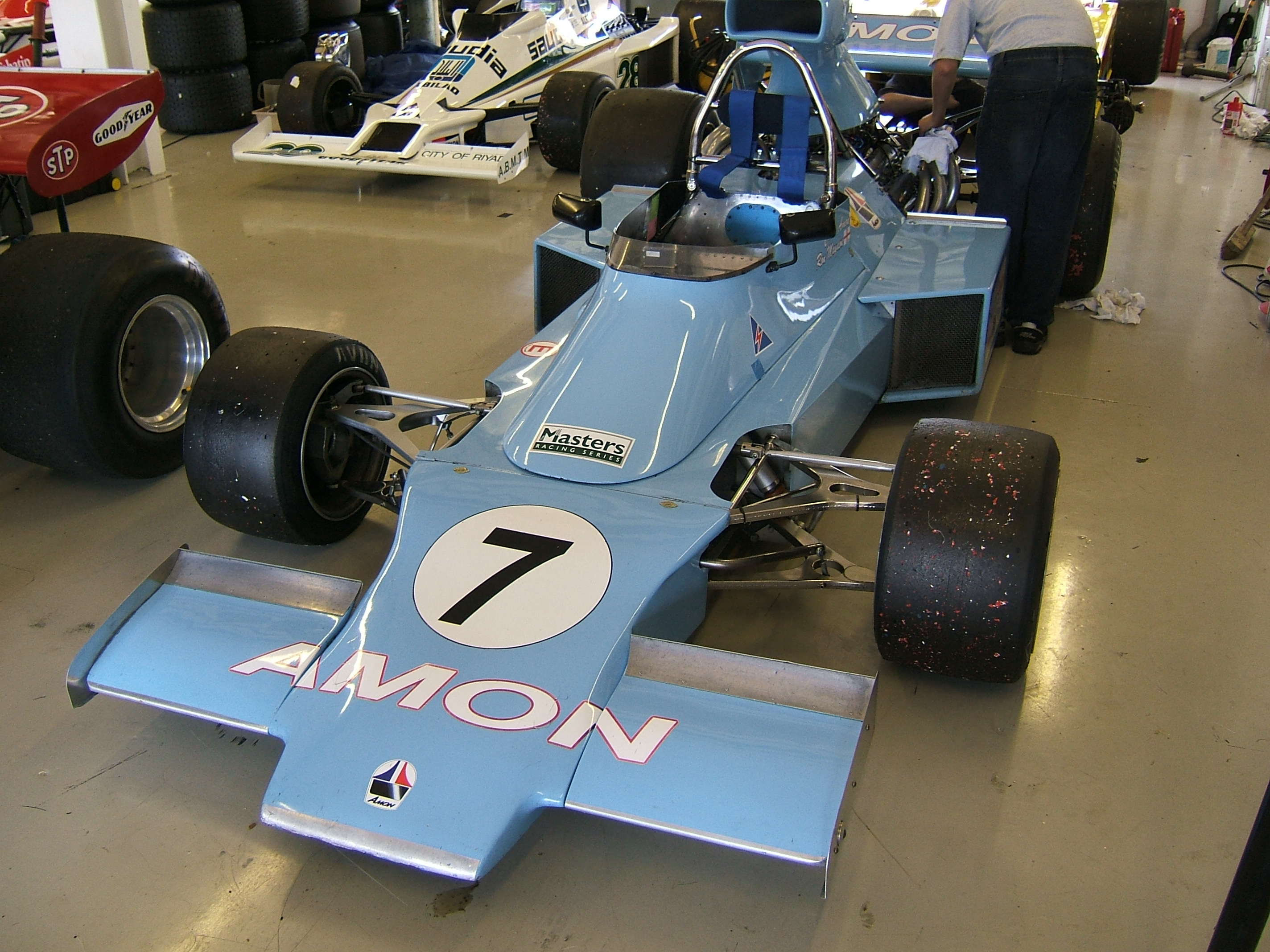 The Amon F101 Formula One car. Photographed in the pit garages at Silverstone Circuit, during the Silverstone Classic meeting, July 2007.